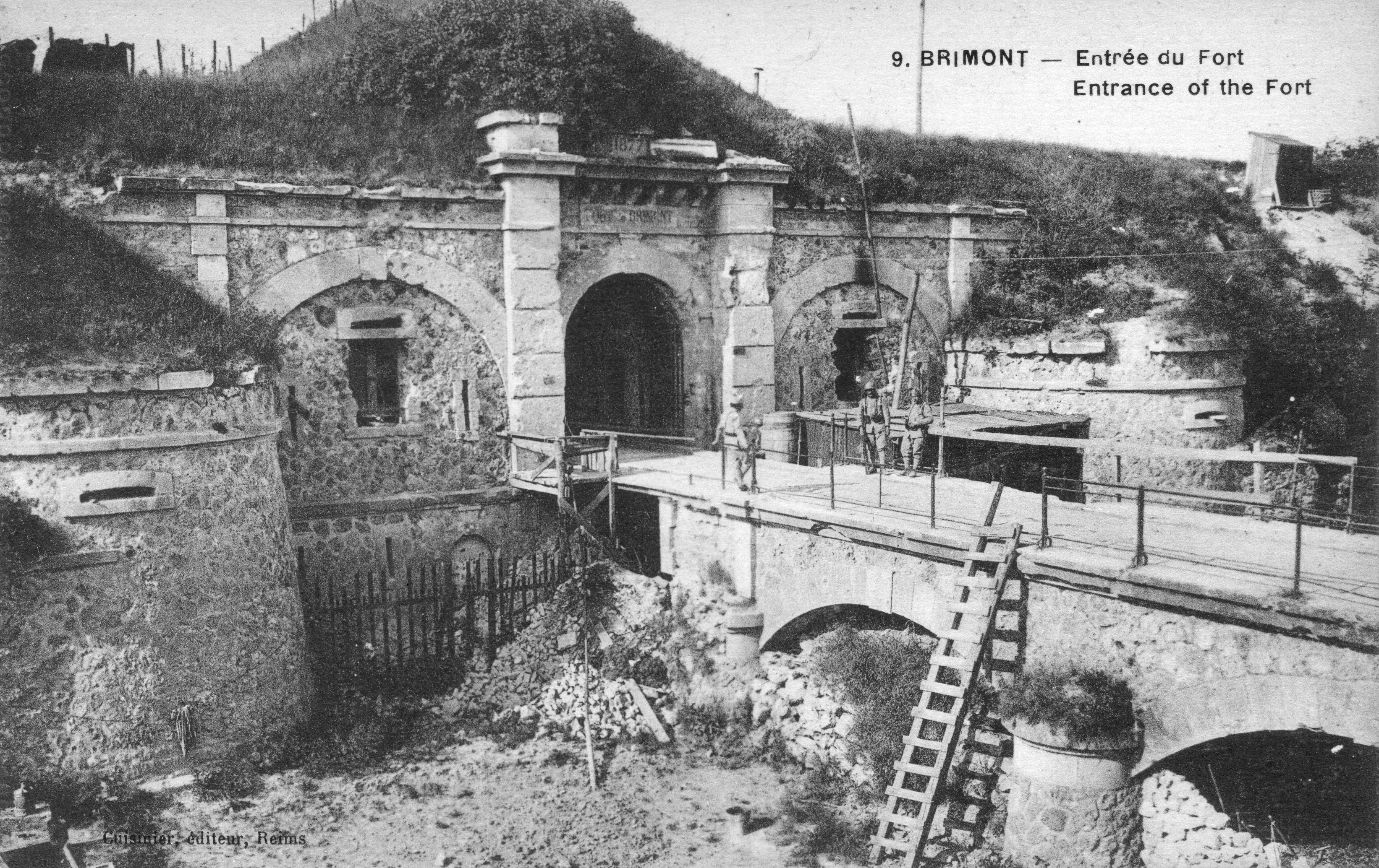 Entrance of the Fort Brimont ca. 1918